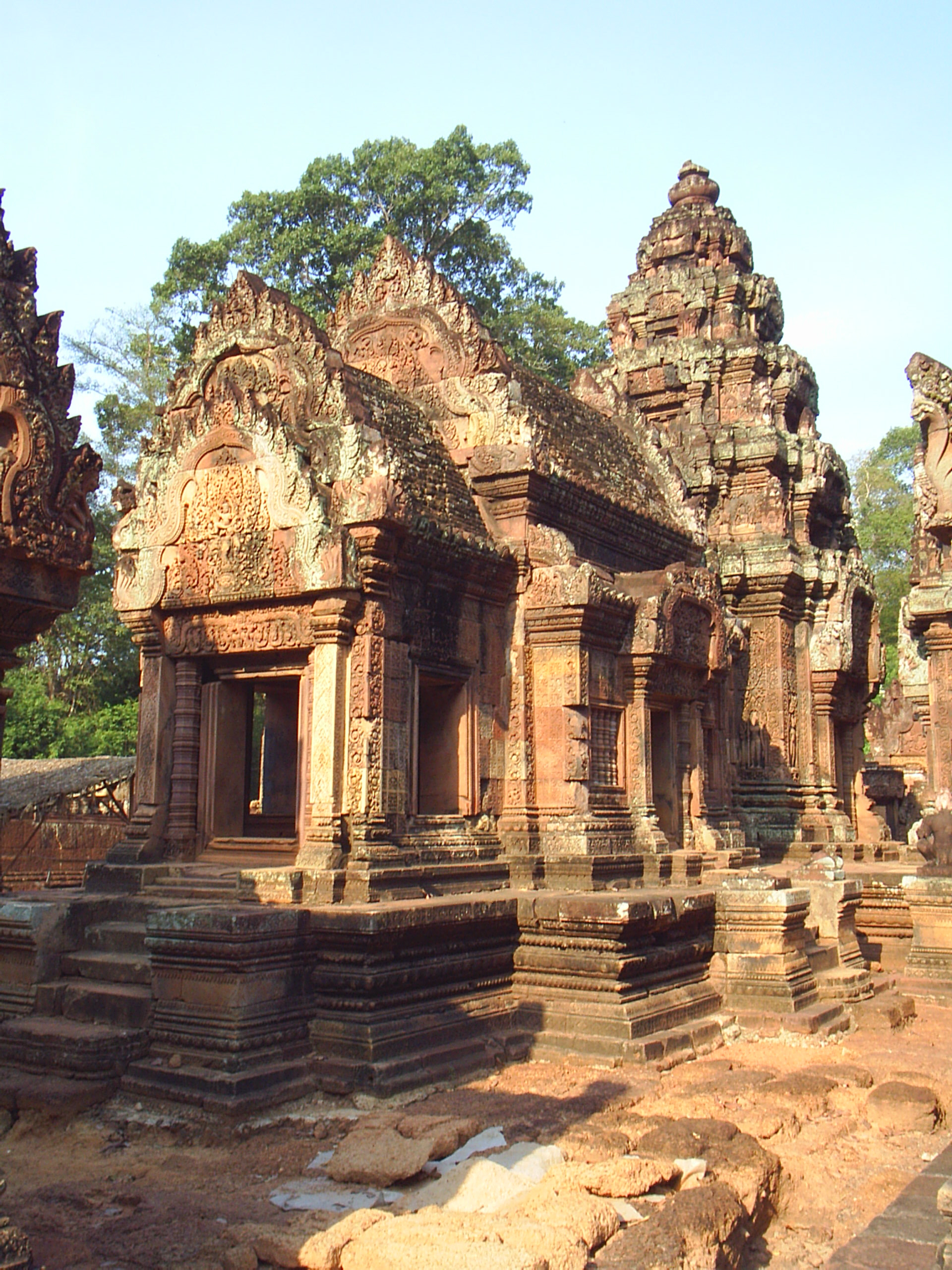 Mandapa of Banteay Srei, Angkor. Image by User:Markalexander100 April 2005.